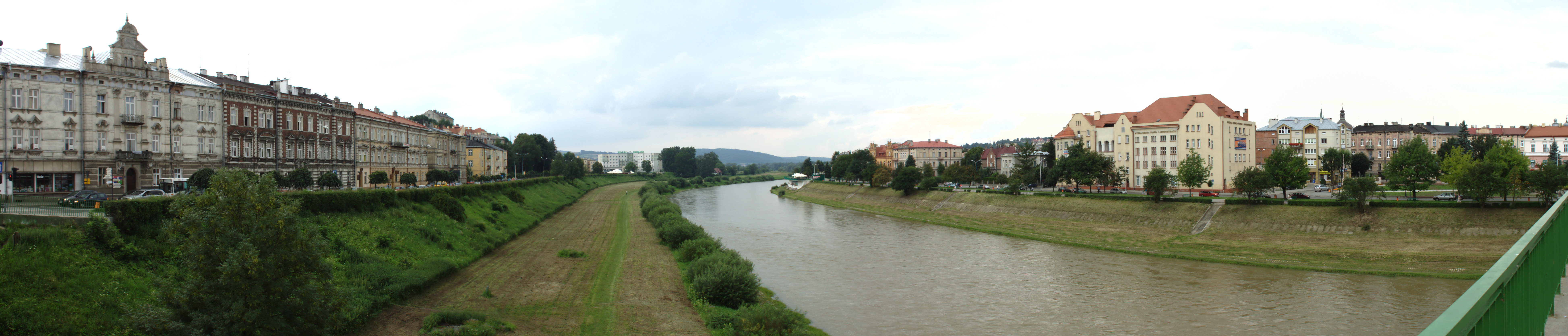 Panoramic view of the San River in Przemyśl, seen from the Orląt Bridge, facing west. Podkarpackie voivodeship, Poland